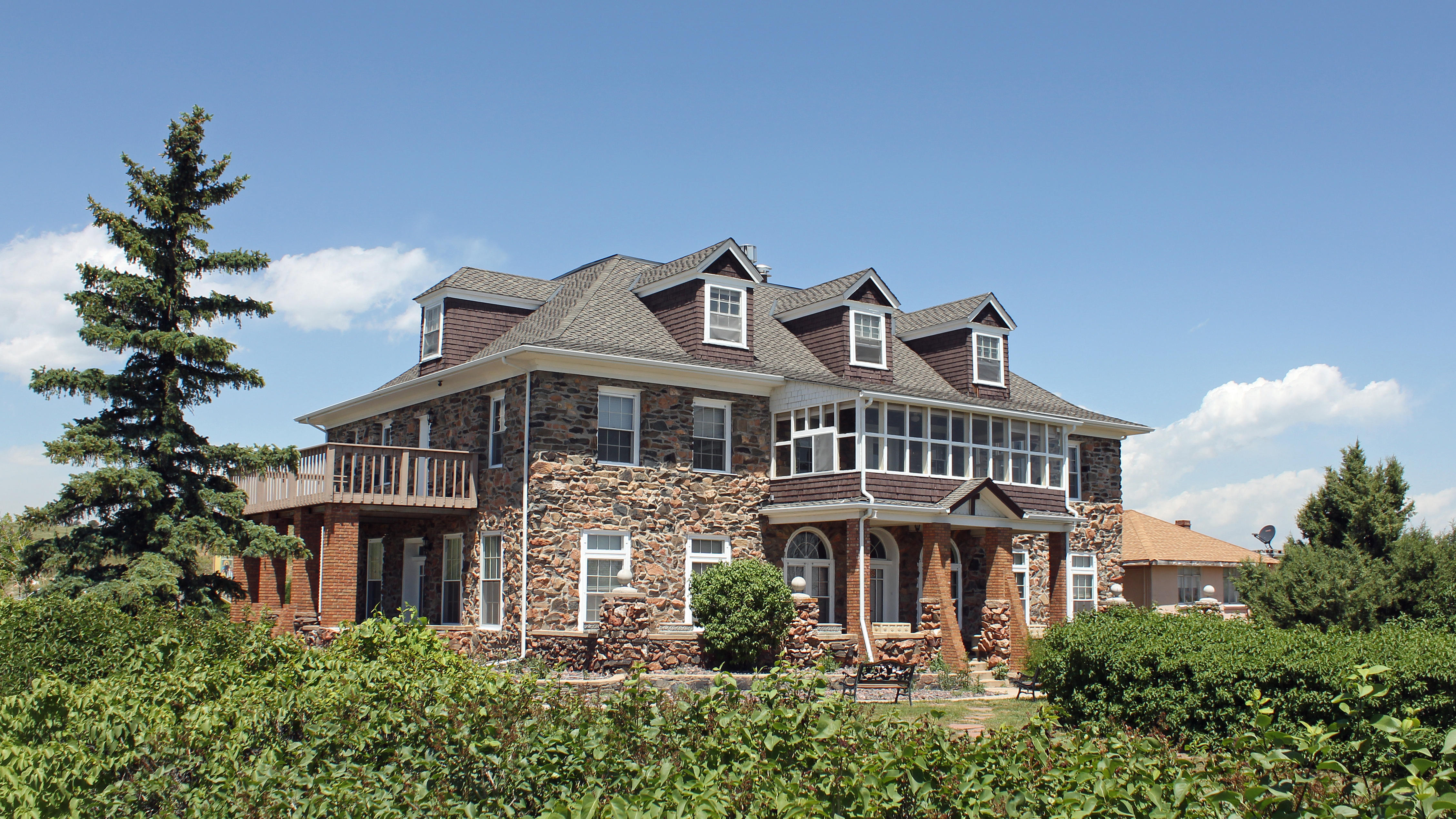 The Queen of Heaven Orphanage Summer Camp, located at 20189 Cabrini Boulevard in Golden, Colorado. The property is listed on the National Register of Historic Places. It is located near the Mother Cabrini Shrine and is sometimes called the "stone house." Construction was completed on the structure in 1914.